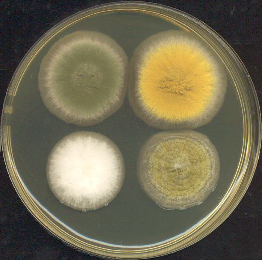 Four Aspergillus colonies grown at 37°C for three days on rich media. Clockwise from top-left: an Aspergillus nidulans laboratory strain; a similar strain with a mutation in the yA marker gene involved in green pigmentation; an Aspergillus oryzae strain used in soy fermentation; the Aspergillus oryzae strain that had its genome sequenced, RIB40. Background is black card. Originally scanned 20 Aug 2008.